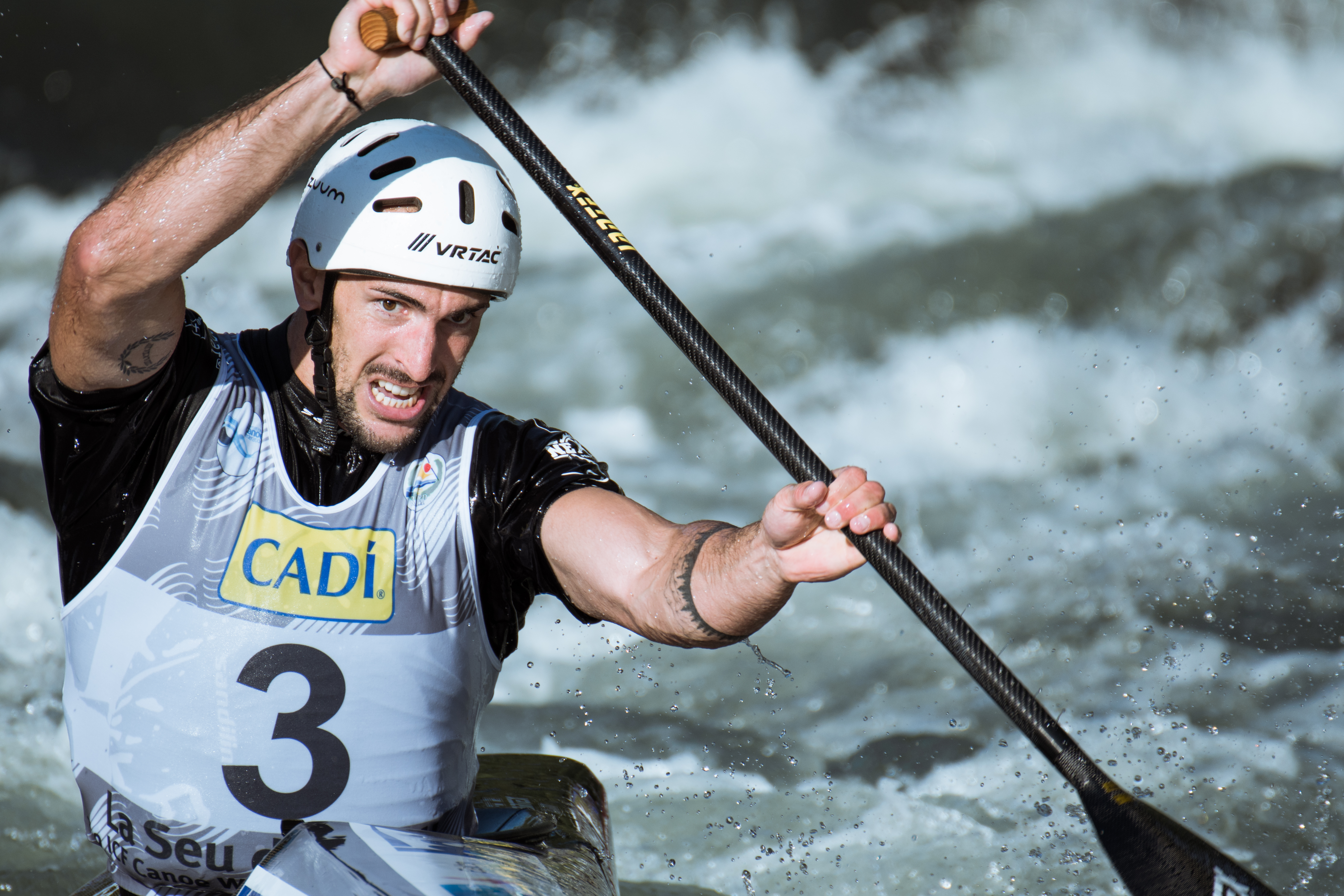 Blaž Cof during the 2019 Canoe Wildwater World Championships in La Seu d'Urgell, Spain.